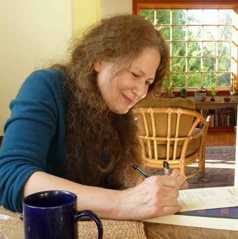 In "Come, Thief," Jane Hirshfield reflects on the landmarks of a life, including the fact that she found true love at age 49.